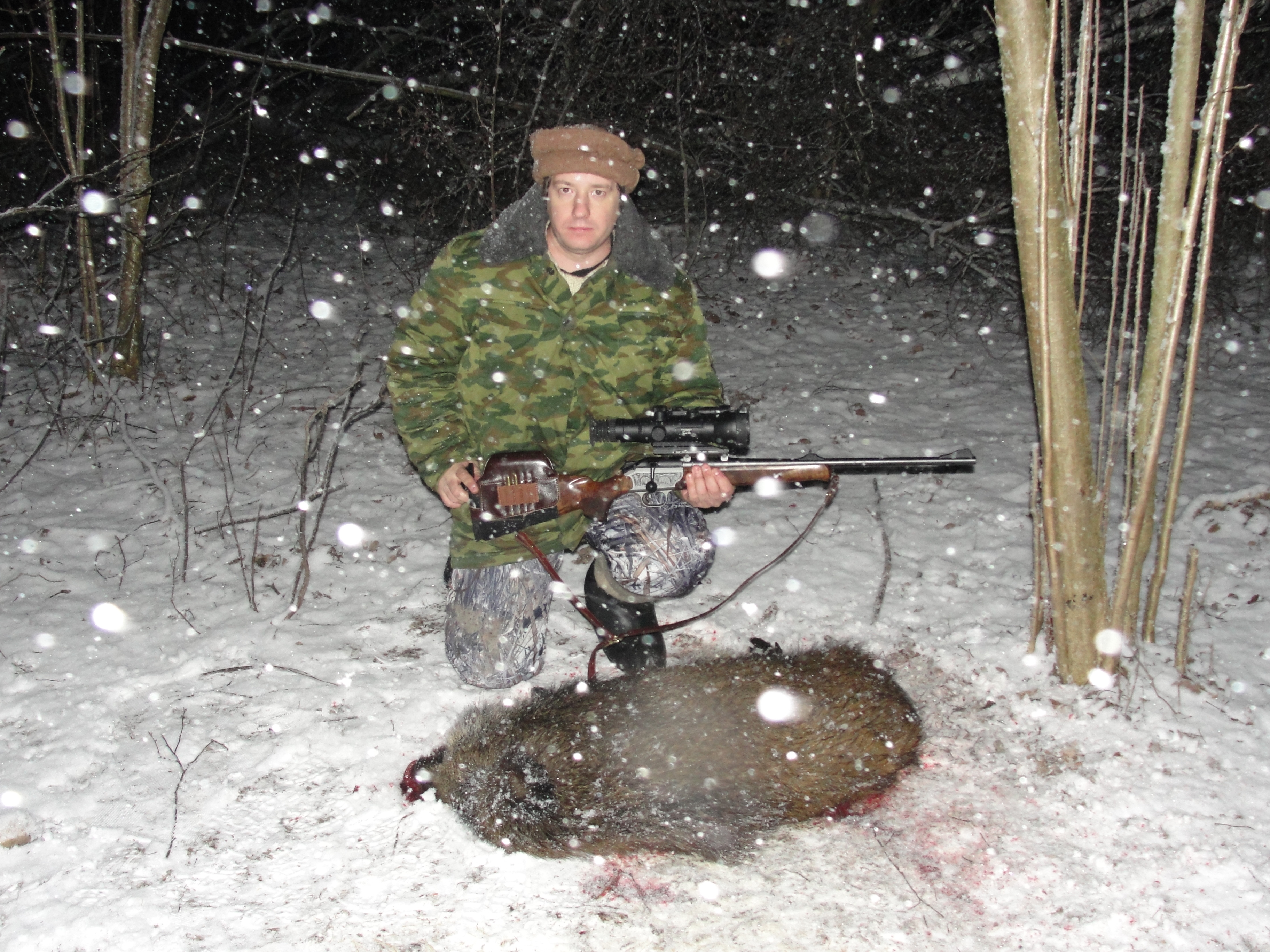 A hunter with a young wild boar trophie in Yaroslavl Oblast of Russia. The gun is Blaser R93, .30-06.